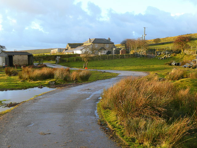 Wardbrook Farm, Sharptor, Henwood Viewed from the public path, looking west.